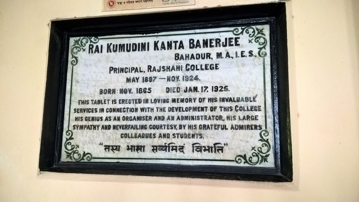 Tablet in loving memory of Rai Kumudini Kanta Banerjee